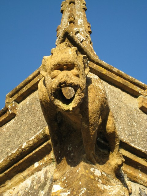 Gargoyle - Church of St Nicholas The word gargoyle is from the French "gargouille" meaning throat. Gargoyles were designed to direct water away from the walls and foundations of a church and first appeared in church architecture in the early 13th century. This one has lost his plumbing - a lead pipe through his mouth in which to convey the water to its release.